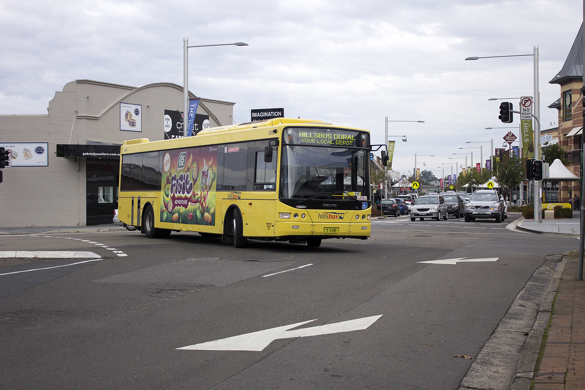 Hillsbus (mo 5390) Volgren 'CR228L' bodied Volvo B7RLE at Castle Hill Interchange in Castle Hill, New South Wales.